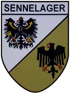 Coat of Arms military training area